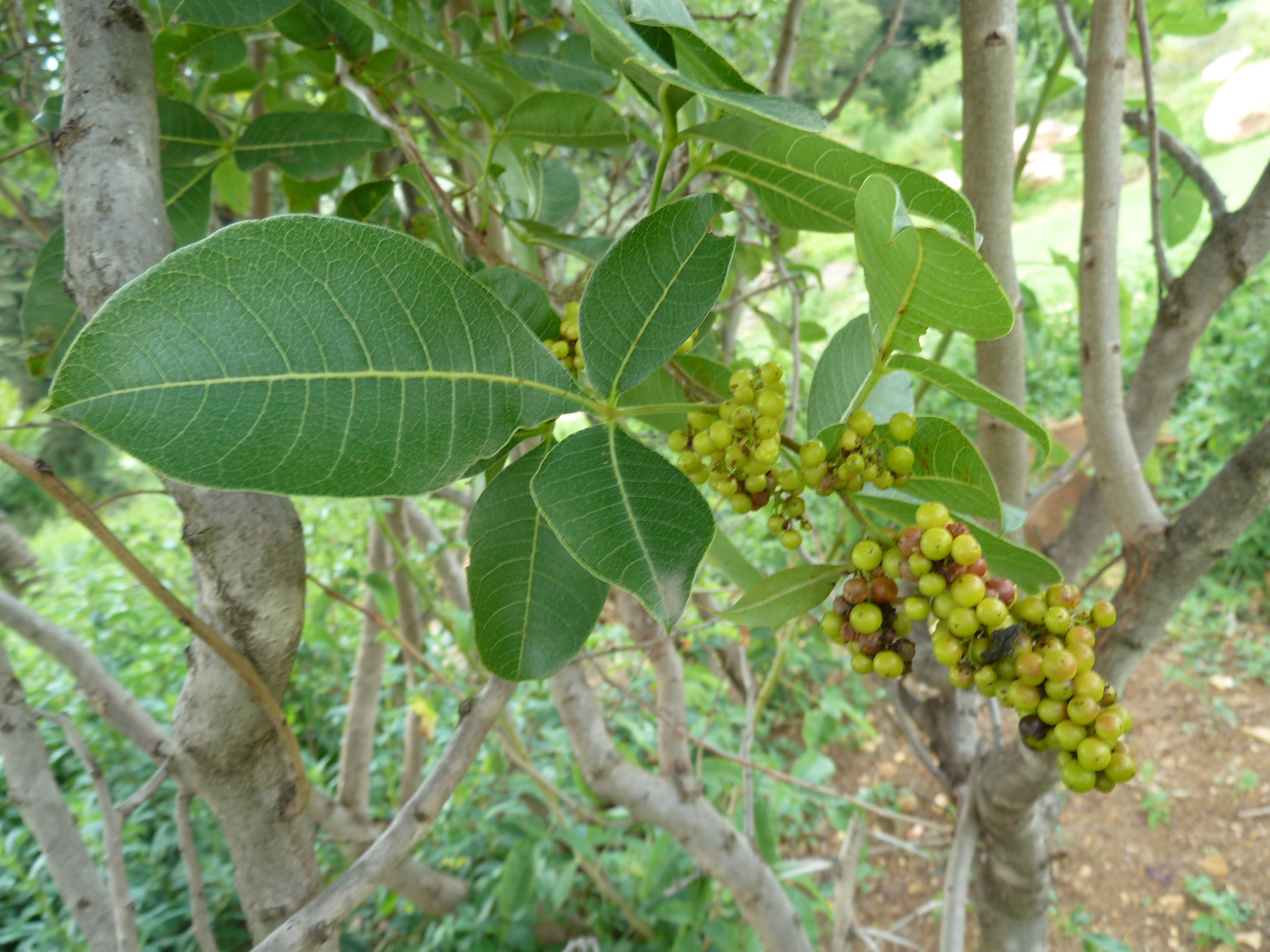 Searsia magalismontana (Sond.) subsp. coddii (R.& A.Fern.) Moffett Foliage and fruit of a Soutpansberg currant at Walter Sisulu National Botanical Garden, Roodepoort, South Africa